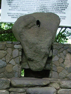 Batu Batikam in West Sumatera, Indonesia